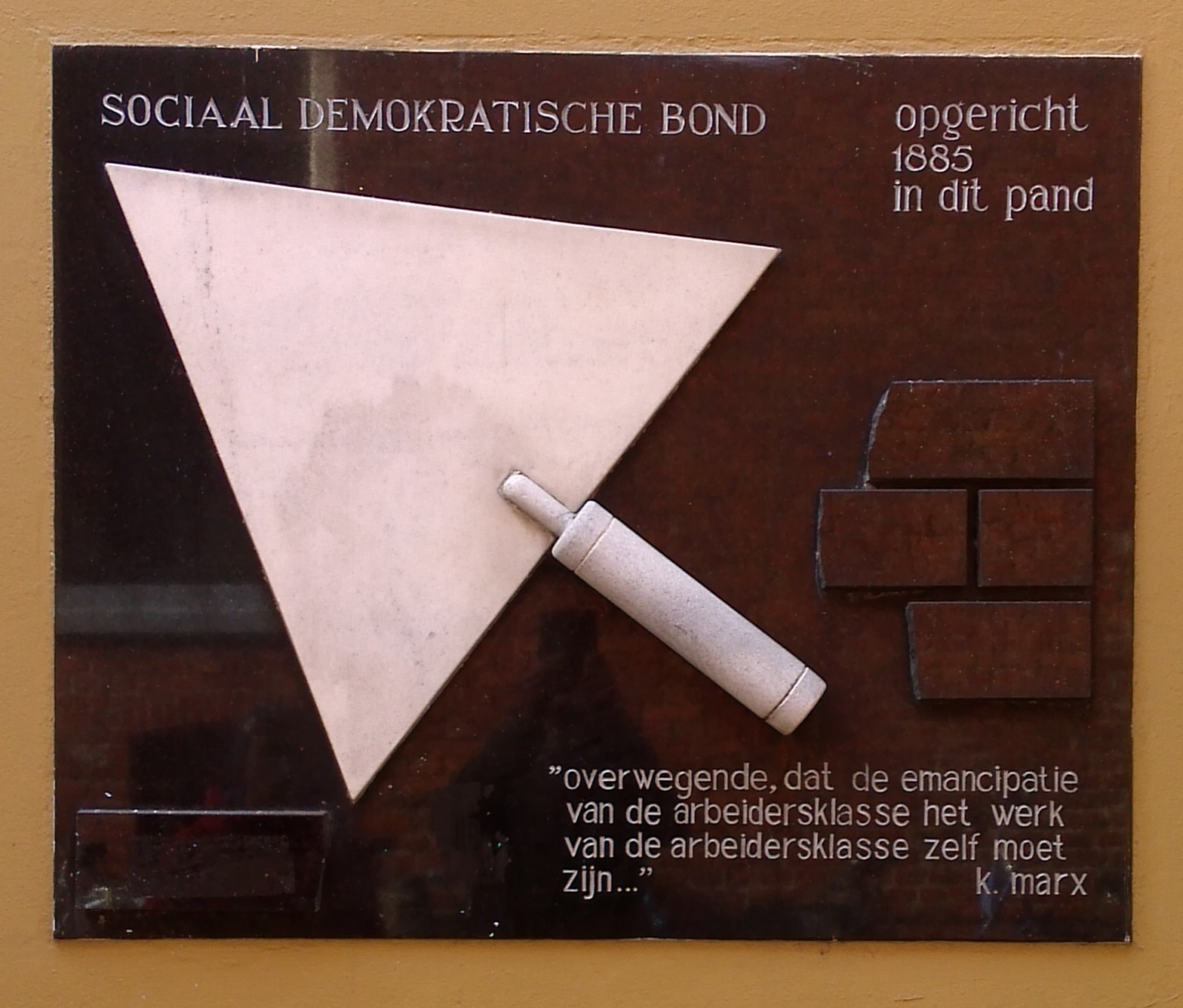 Memorial Stone SDB (Social Democratic Union) in Groningen, the Netherlands